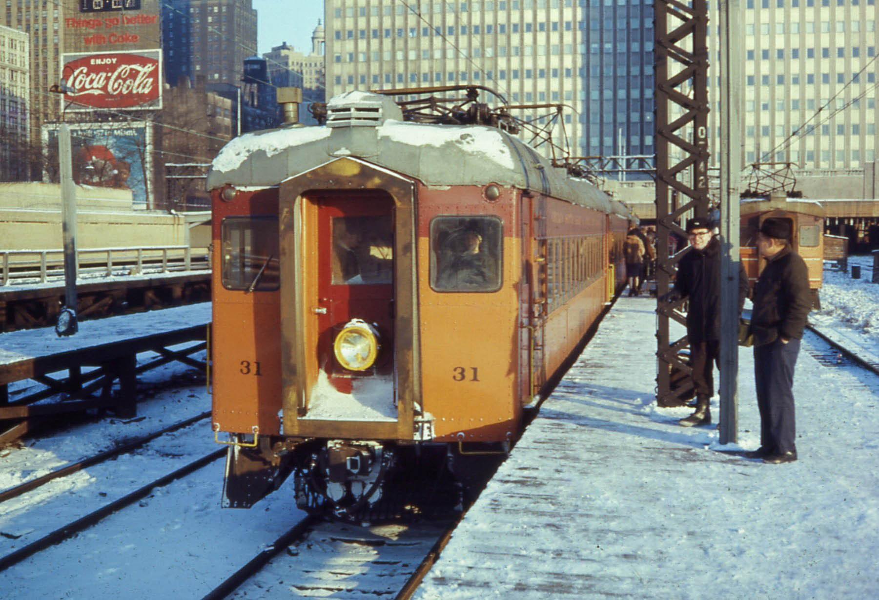 19681229 04 South Shore Line, Randolph St.